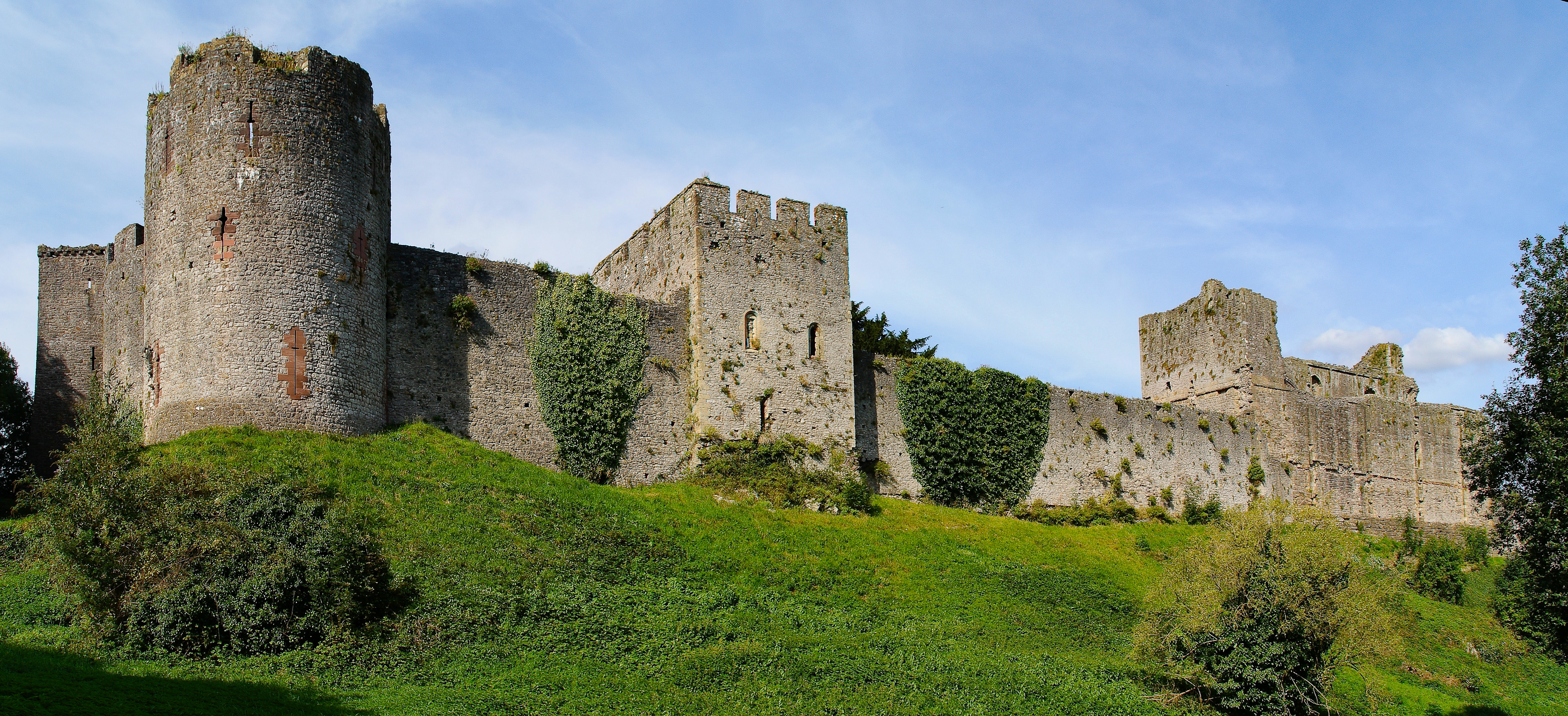 A stitch of the western end of Chepstow castle in Monmouthshire, Wales.